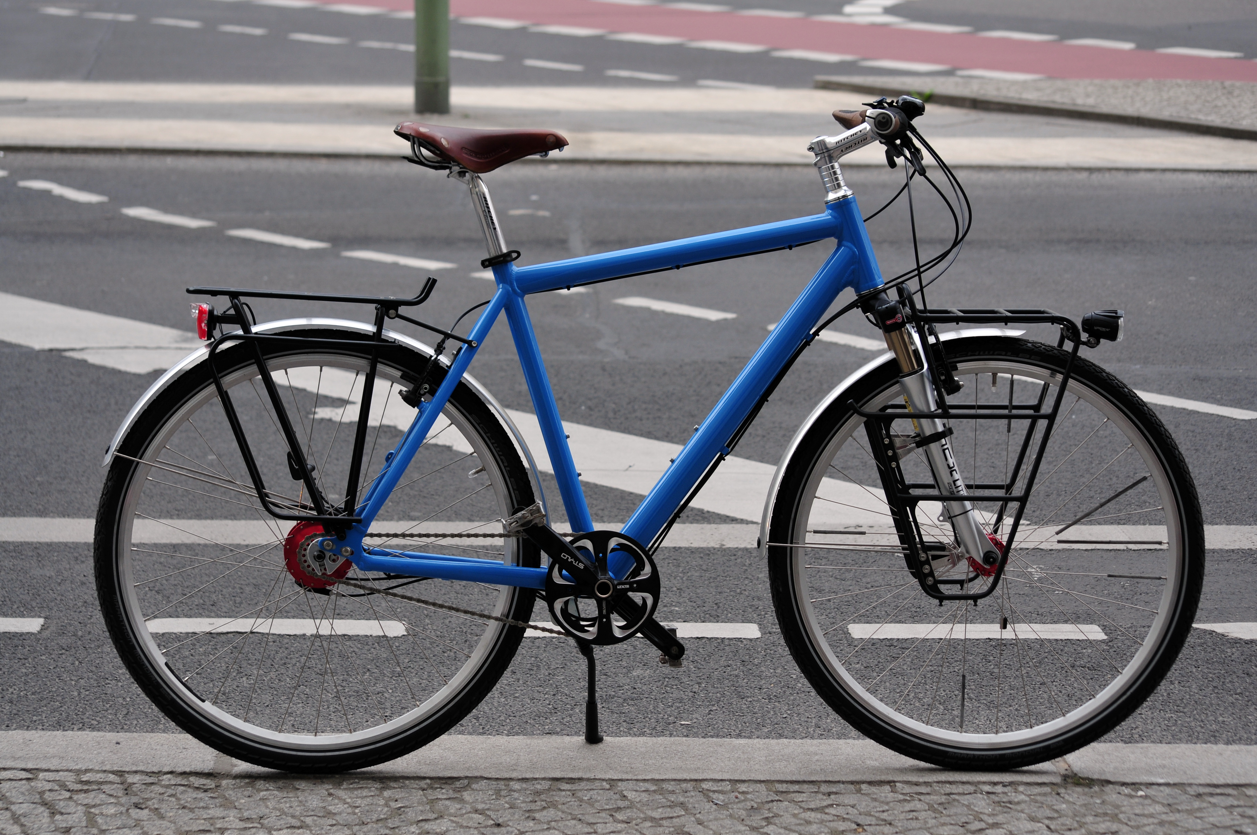 touring bicycle with 28-inch wheels and Hub gear